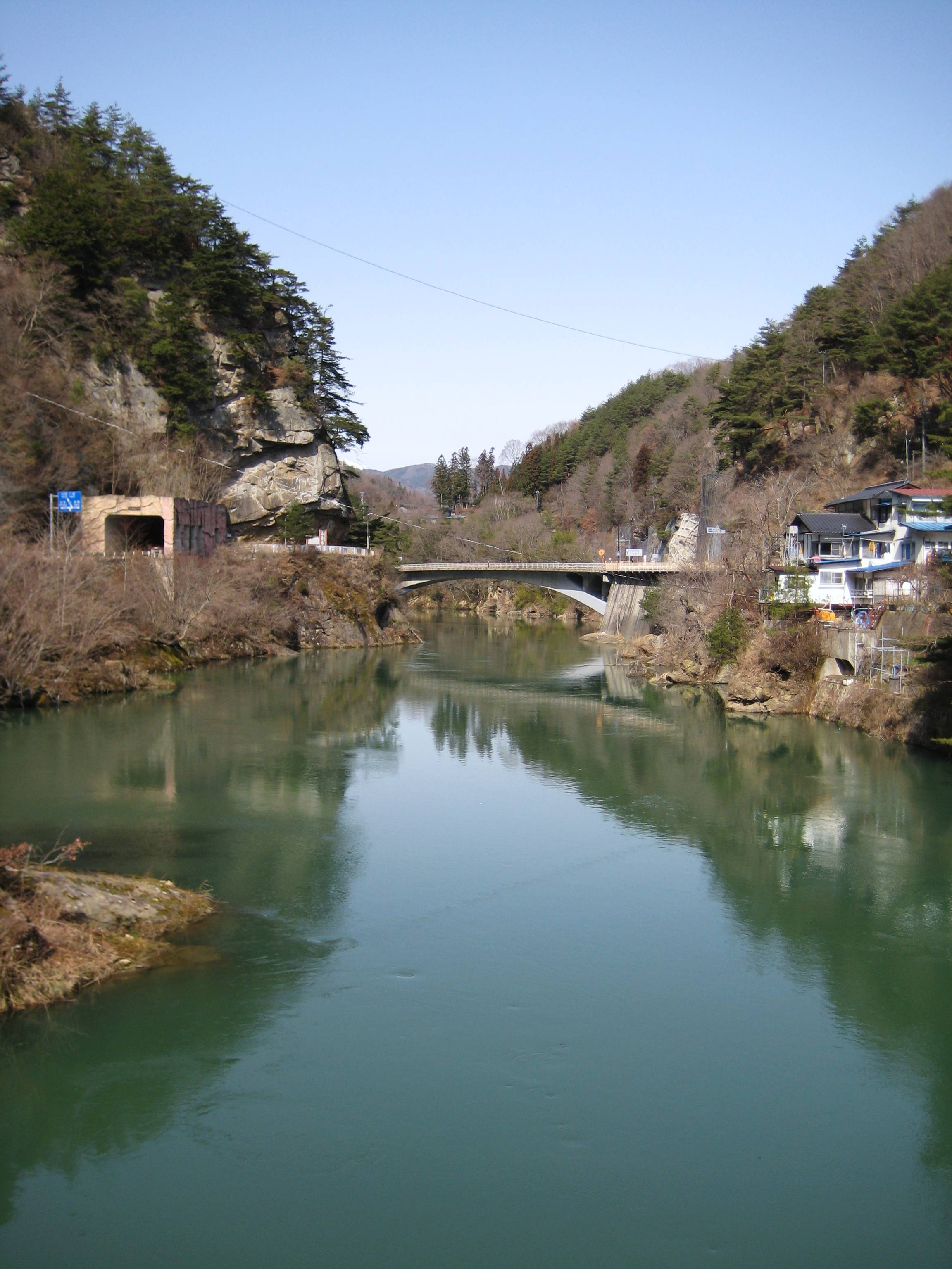 Sanseiji.